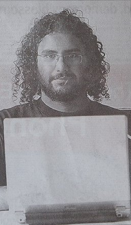 Alaa Abd El-Fatah using his laptop